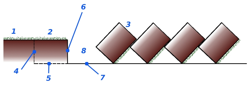 Scheme of tillage executed by the plough